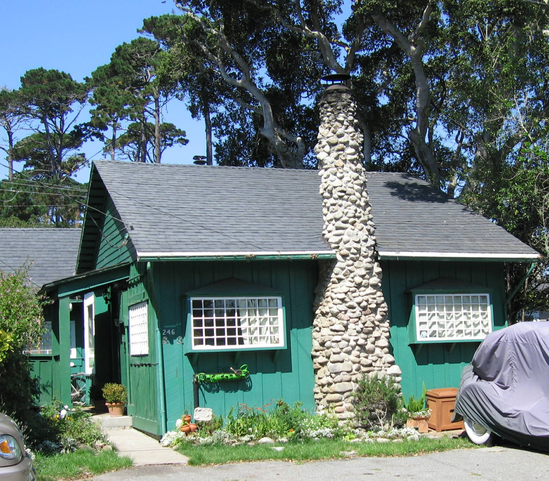 First house designed and built by Emily Williams with help of Lillian Palmer